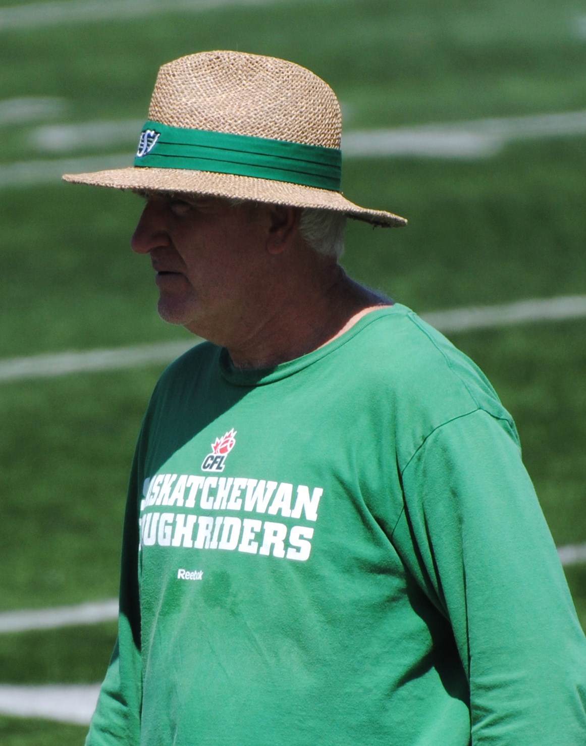 Special teams coordinator Jim Daley during a Saskatchewan Roughriders practice.